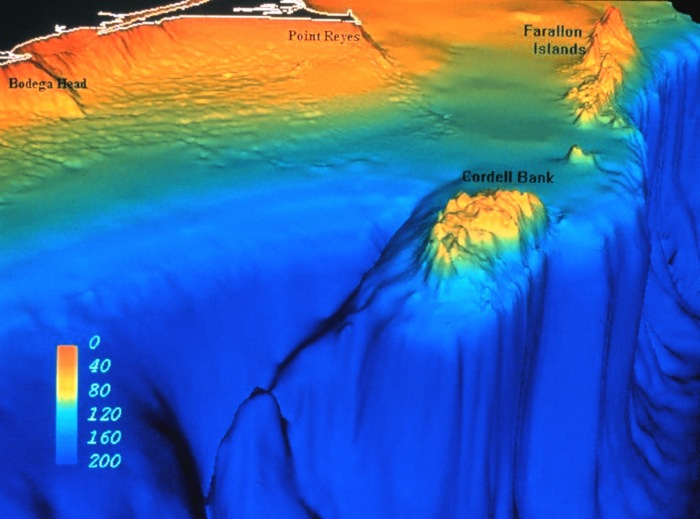 Bottom topography of Cordell Bank and the Gulf of the Farallones